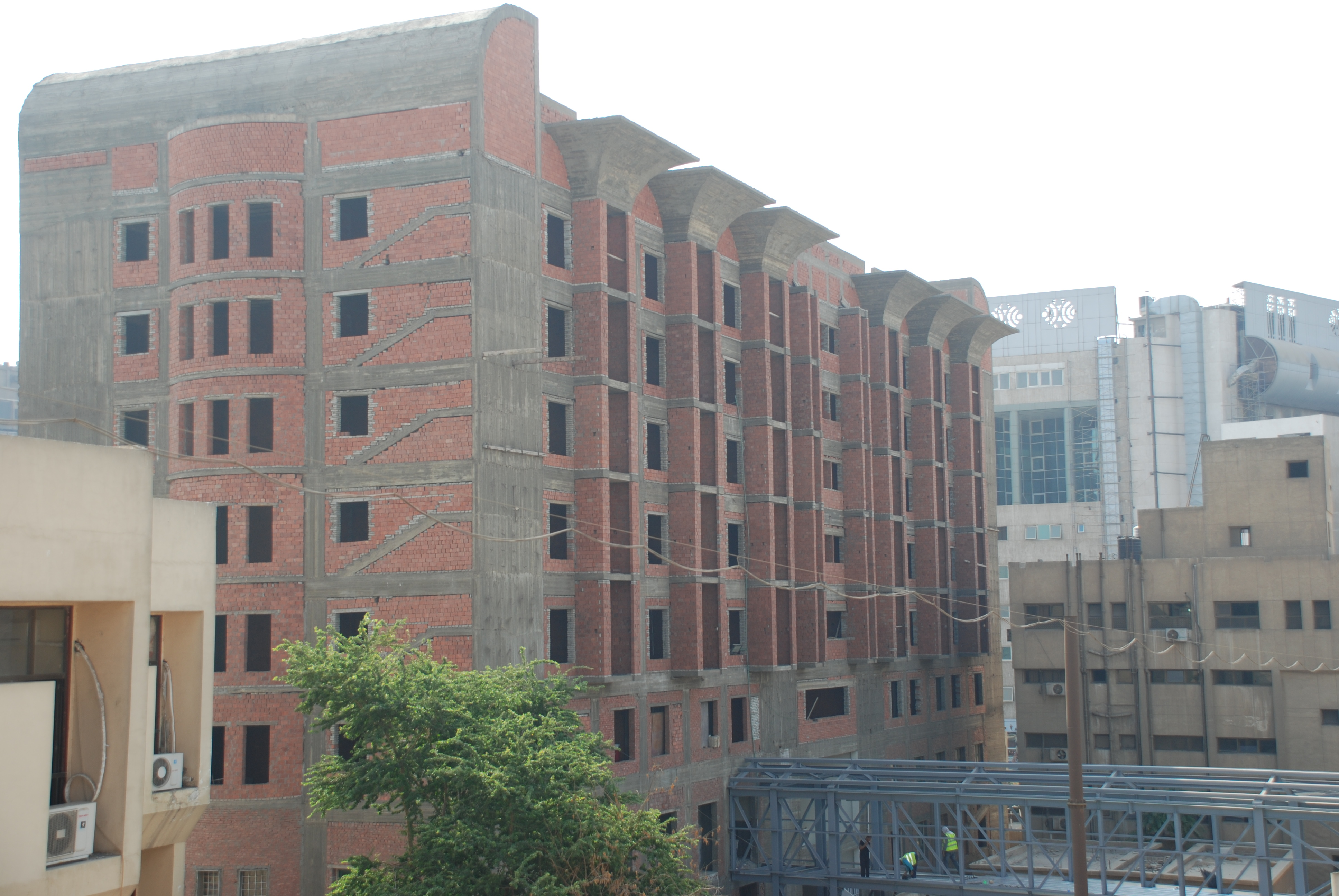 New Children's Hospital Ain Shams University under construction